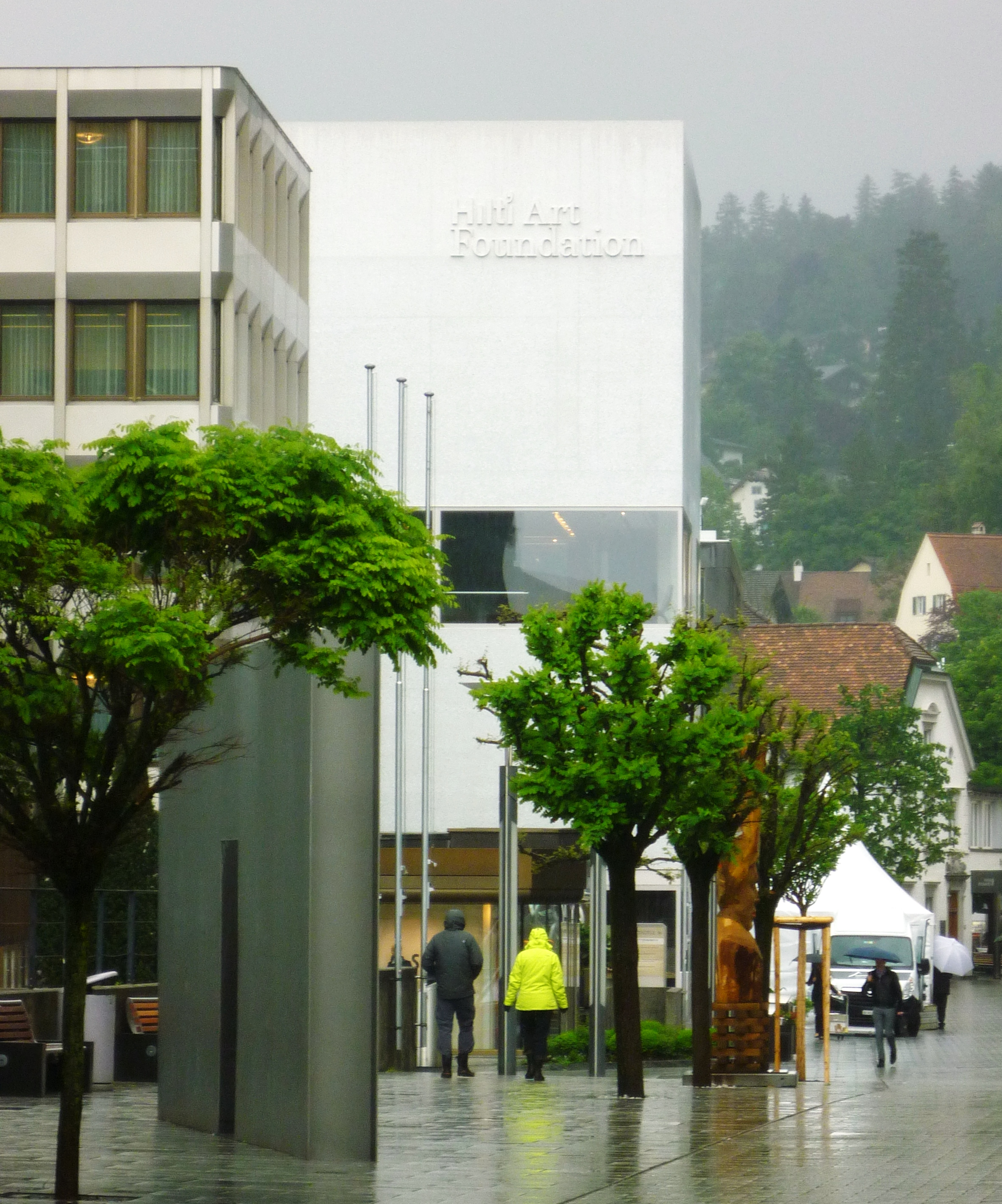 Exhibition building of Hilti Art Foundation in Vaduz, Liechtenstein